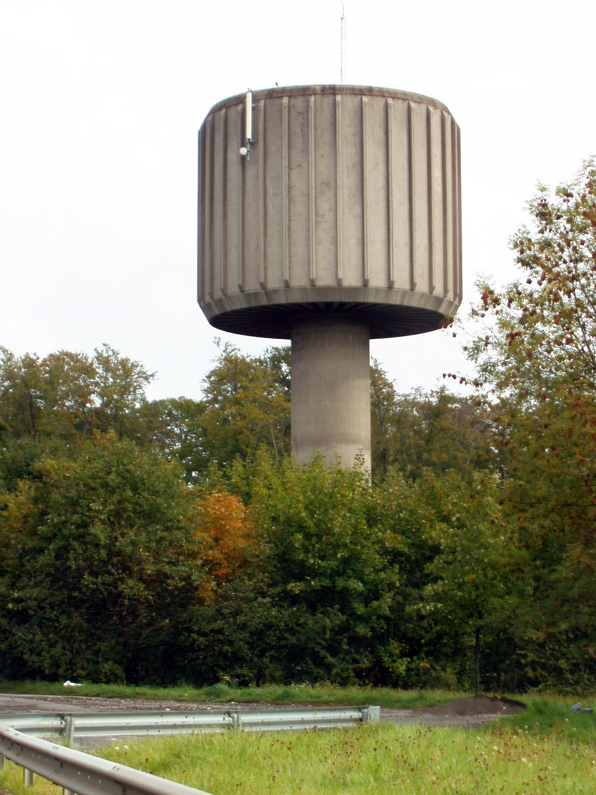 The "old" water tower in Leudelange, Luxembourg, is still in use (500 m3)